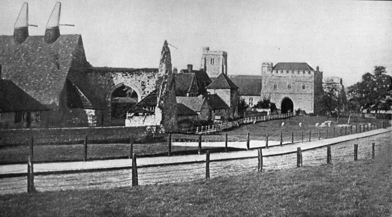 College Road, Maidstone showing College Farm and the Gateway to the former College of All Saints and the tower of All Saints Church.